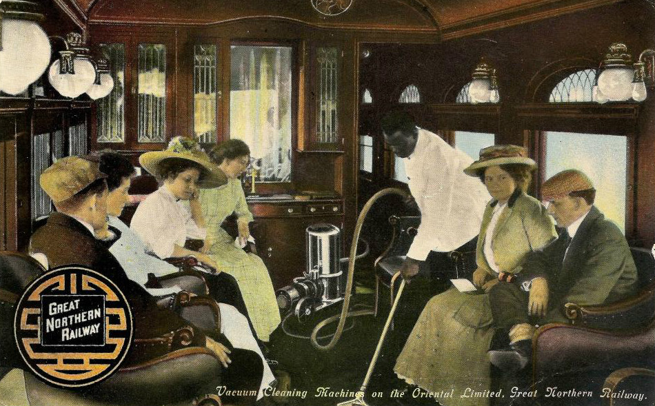 Postcard photo of the parlor car of the "Oriental Limited" train which went from Chicago to Seattle. An African-American porter is seen vacuuming the car's carpet. Another card of the same scene is File:Oriental Limited parlor car 1909.JPG. This is a larger version of the photo.